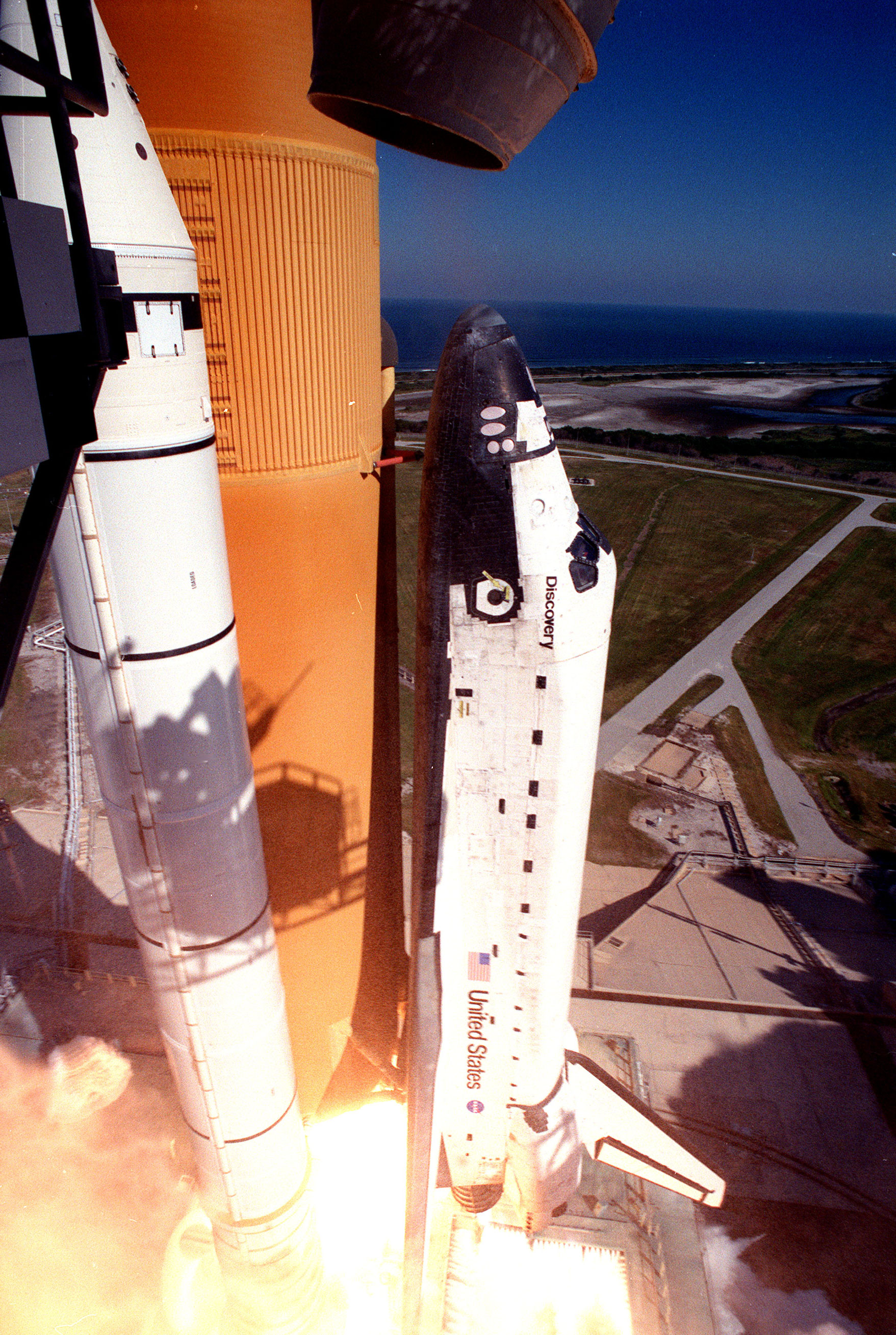 Thousands of gallons of water released as part of the sound suppression system at the launch pad create clouds of steam and exhaust as Space Shuttle Discovery lifts off from Launch Pad 39B at 2:19 p.m. EST Oct. 29 on mission STS-95. Making his second voyage into space after 36 years is Payload Specialist John H. Glenn Jr., senator from Ohio. Other crew members are Mission Commander Curtis L. Brown Jr., Pilot Steven W. Lindsey, Payload Specialist Chiaki Mukai, (M.D., Ph.D.), with the National Space Development Agency of Japan (NASDA), Mission Specialist Stephen K. Robinson, Mission Specialist Pedro Duque of Spain, representing the European Space Agency (ESA), and Mission Specialist Scott E. Parazynski. The STS-95 mission includes research payloads such as the Spartan solar-observing deployable spacecraft, the Hubble Space Telescope Orbital Systems Test Platform, the International Extreme Ultraviolet Hitchhiker, as well as the SPACEHAB single module with experiments on space flight and the aging process. Discovery is expected to return to KSC at 11:49 a.m. EST on Nov. 7.